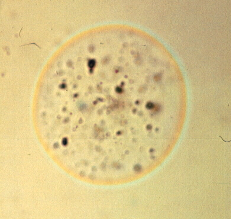 This image shows the colored Becke` lines that result when a particle in mounted in a refractive index liquid that matches the particle at the sodium D-line.